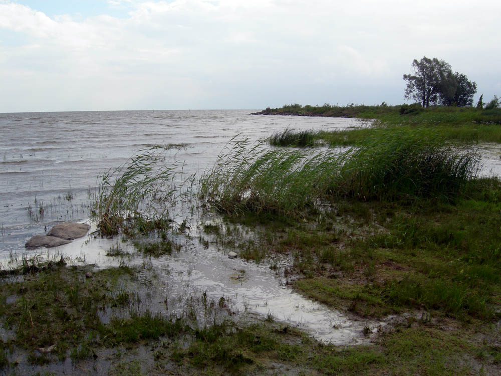 Shoreline at Mustvee, Estonia. July 25, 2007.